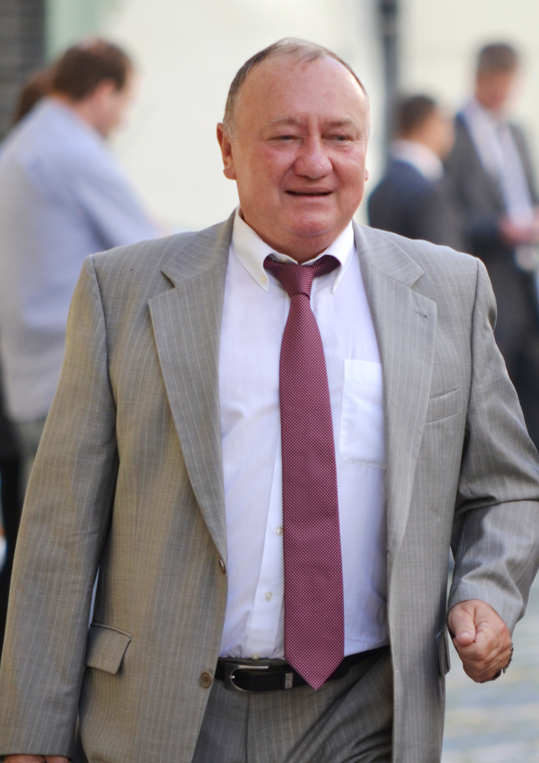 Vítězslav Jandák, Member of the Czech Parliament